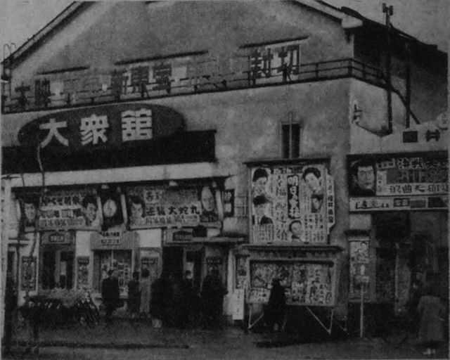 Movie theater "Taishūkan" Fukui, Japan